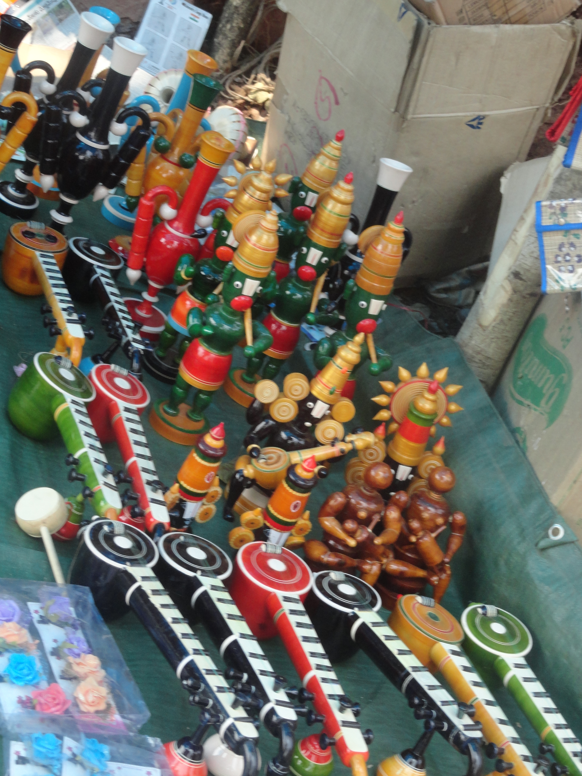 Weapons of girijan. at Araku